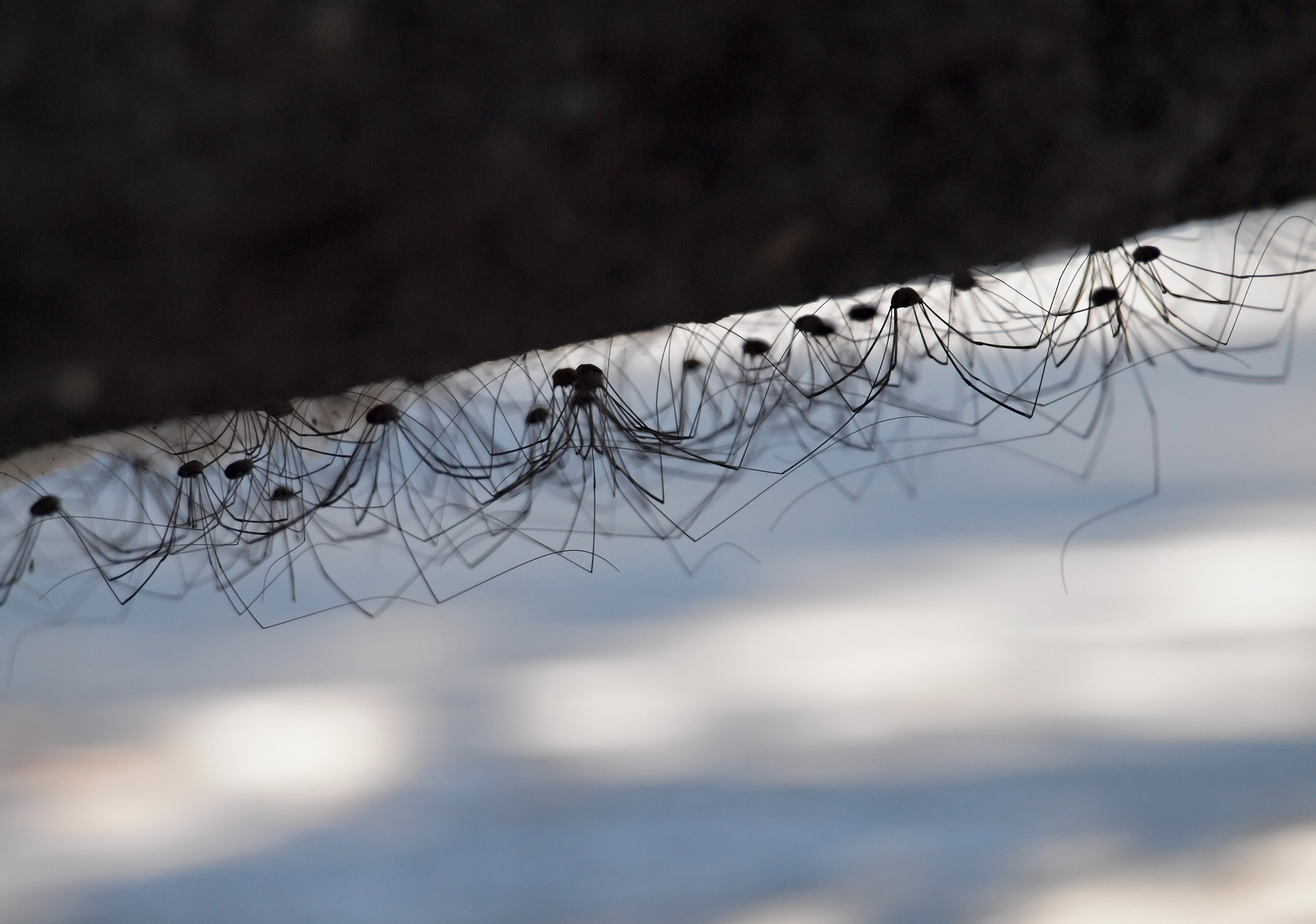 Gregarious scene of Opiliones under a stone in Losar de la Vera, Cáceres, Spain.